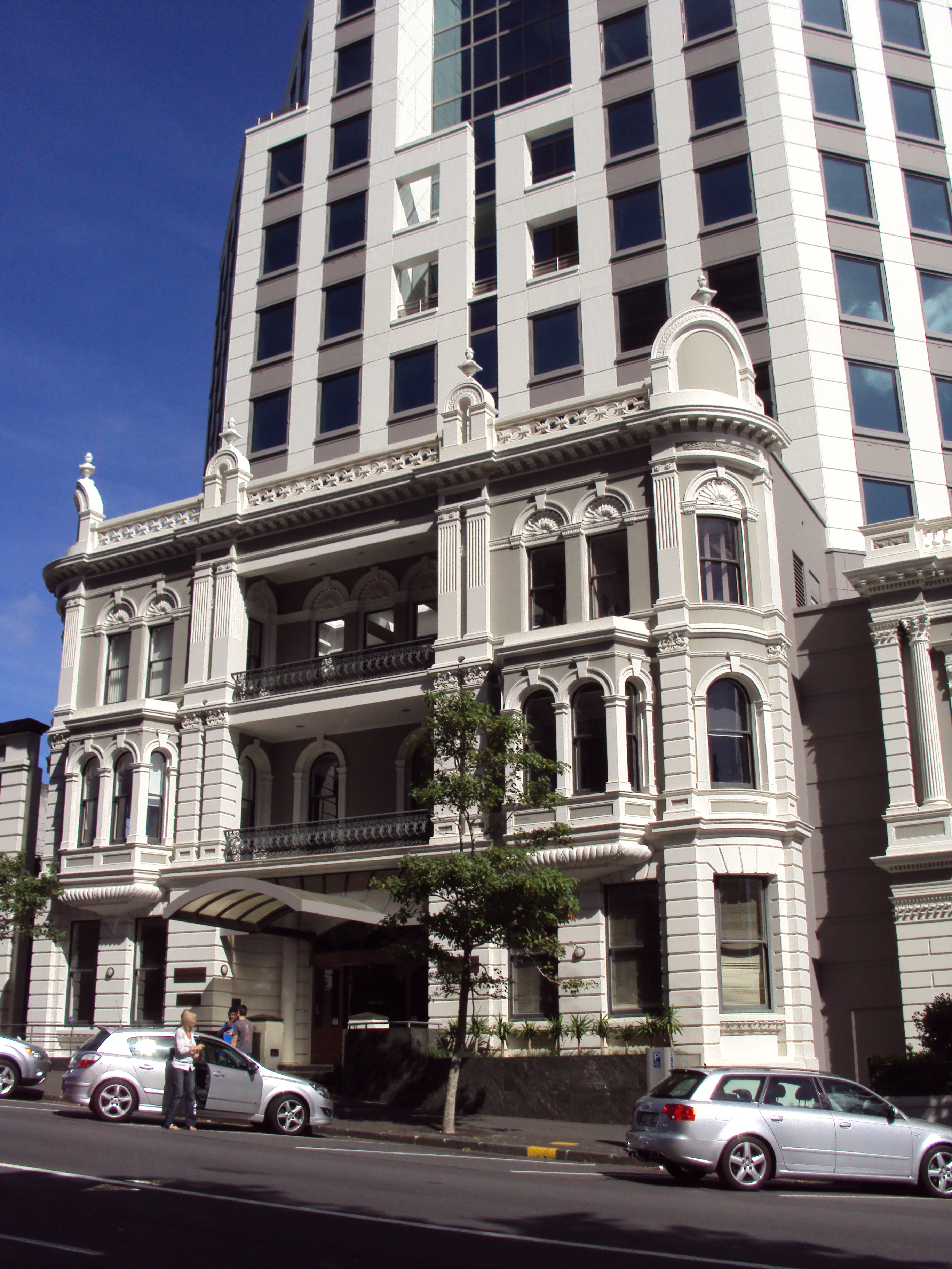 The Grand Hotel Facade, in Auckland, New Zealand, as viewed in March 2010. It was built in 1889.